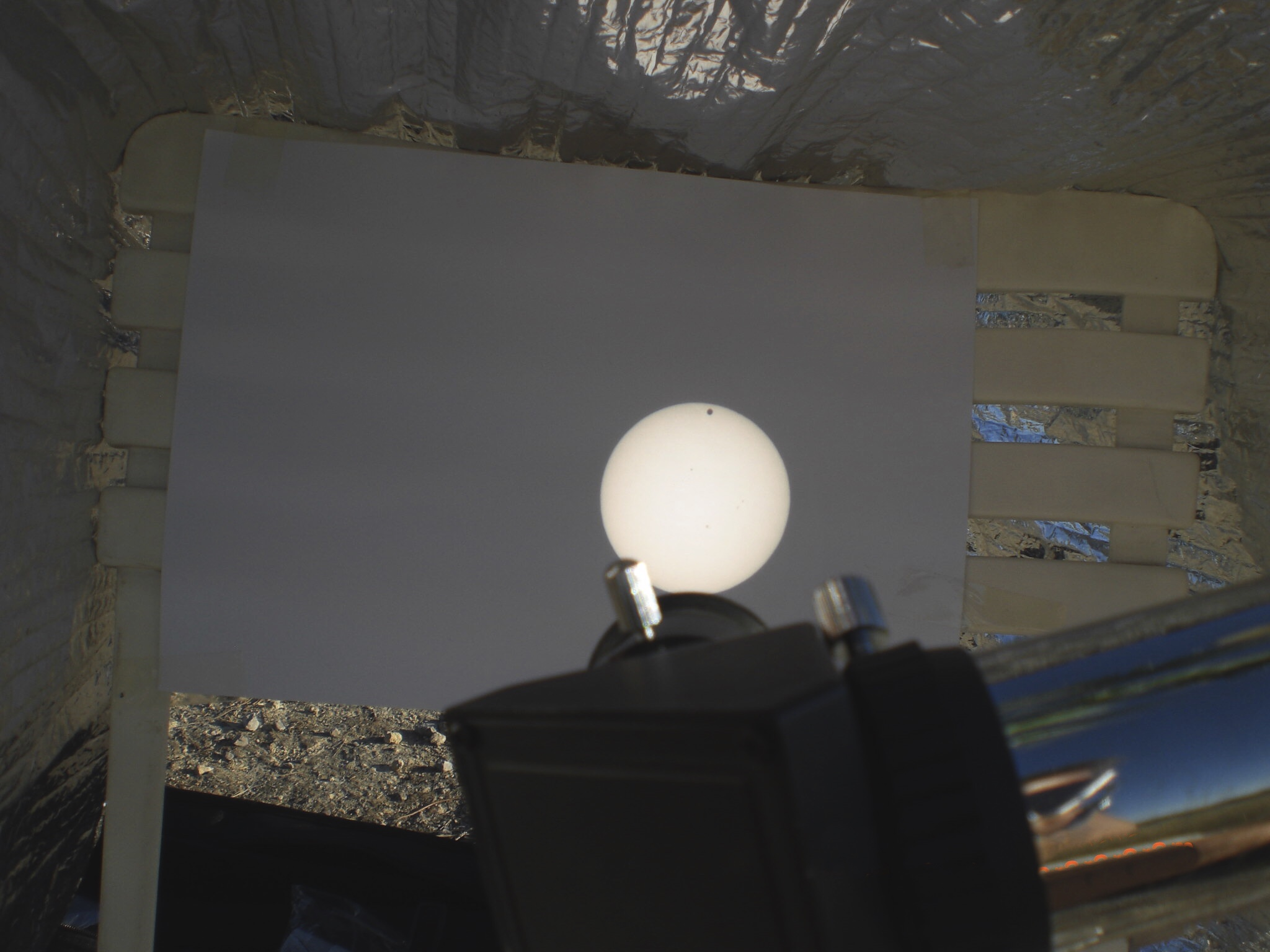 This is an amateur photo of Venus transit 2012. We can see part of the telescope used and the white paper where the reflection of the Sun plus the shadow of Venus are projected.